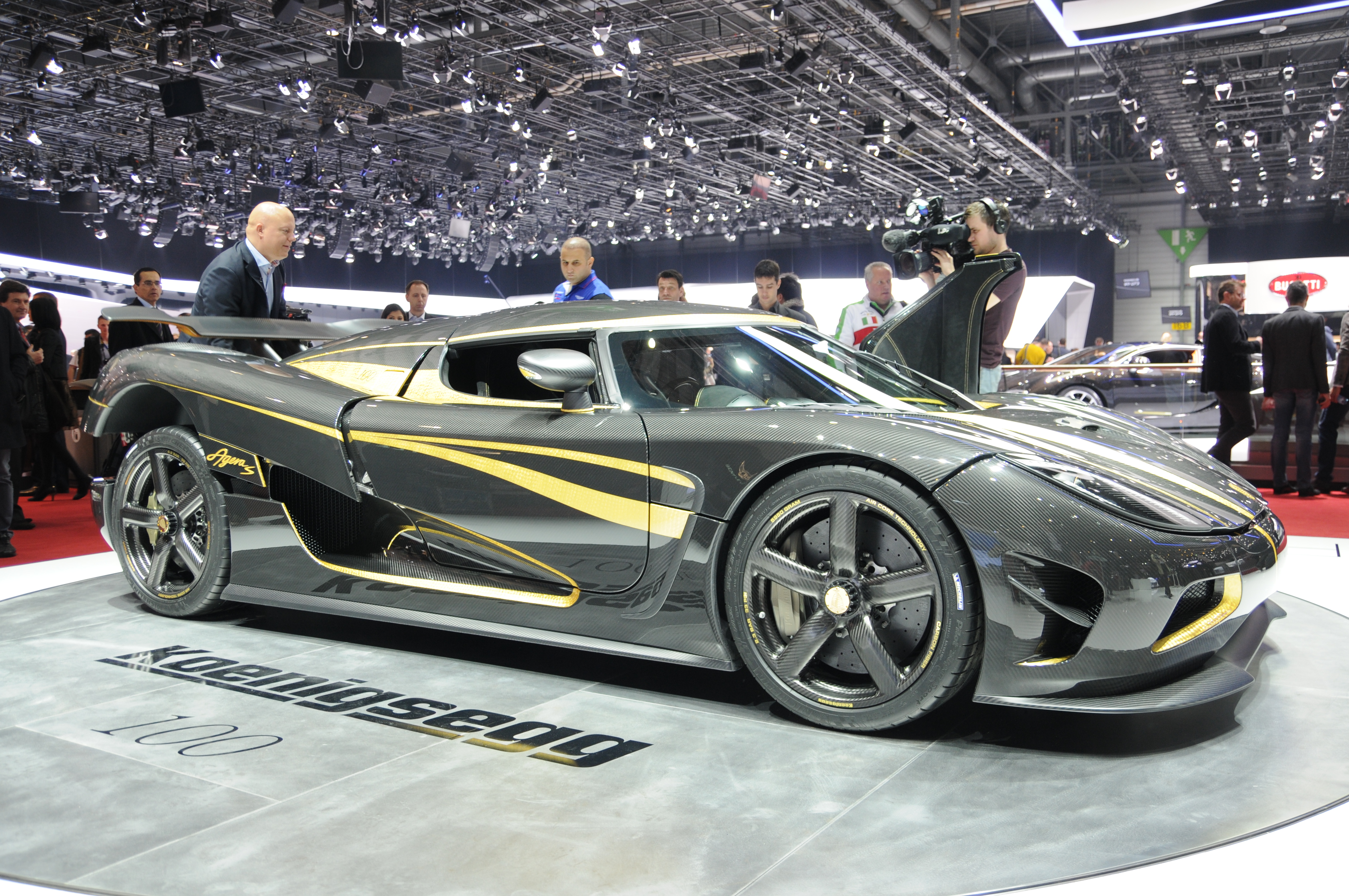 Geneva Motor Show 2013 (photos taken on the first press day)